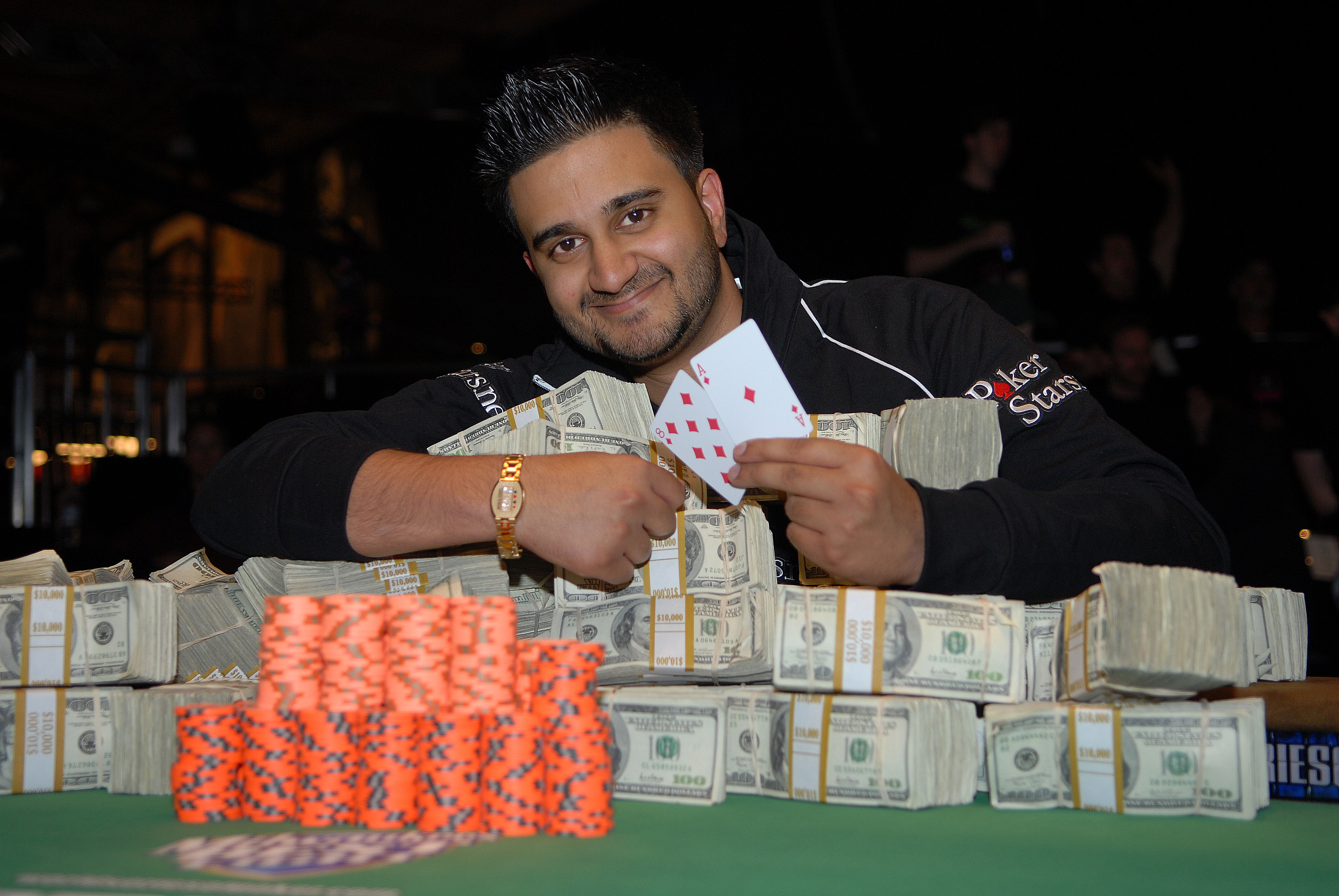 Shankar Pillai after winning the $3000 No Limit Hold 'Em event at the 2007 World Series of Poker